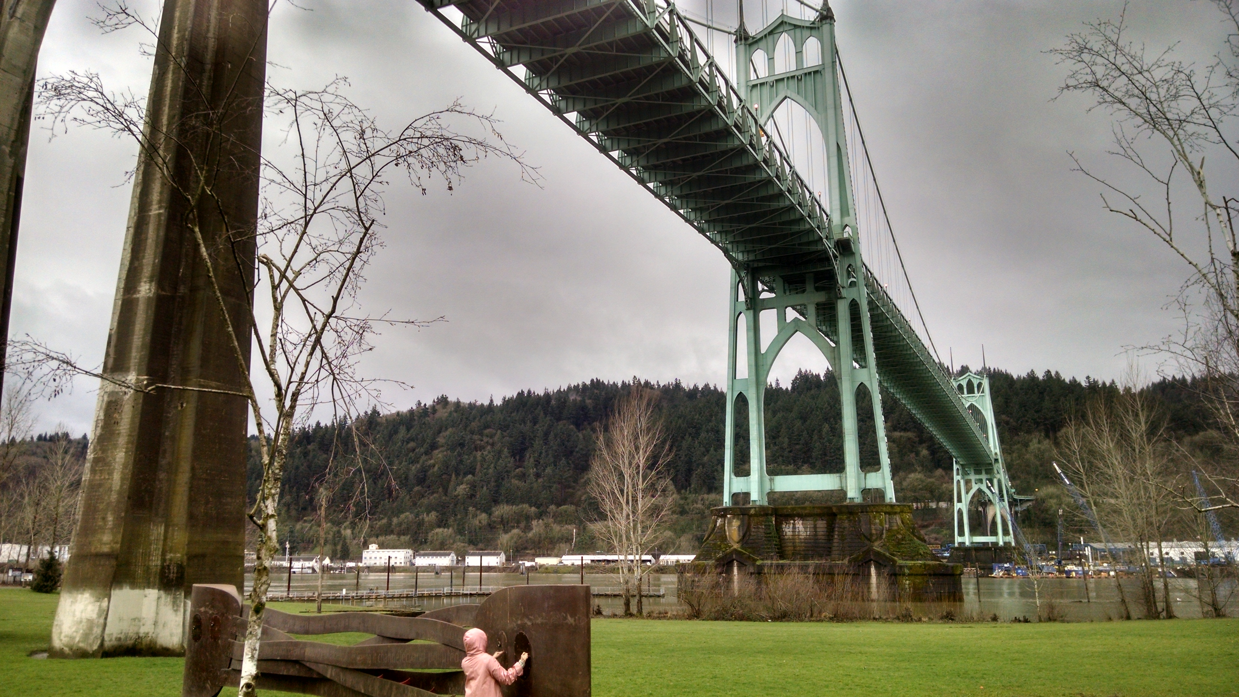 Permanent outdoor exhibit of a metal river at Cathedral Park, under the St. John's Bridge in Portland Oregon, installed with music box tune of Hoagy Carmichael's "Up A Lazy River", the year the bridge was built.